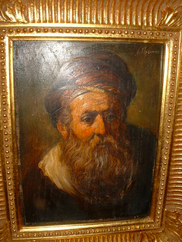 Painting by Jean Theuns. Oil on oak panel l7 x 9.5 inches. Private Collection CAJ (Indiana, USA)